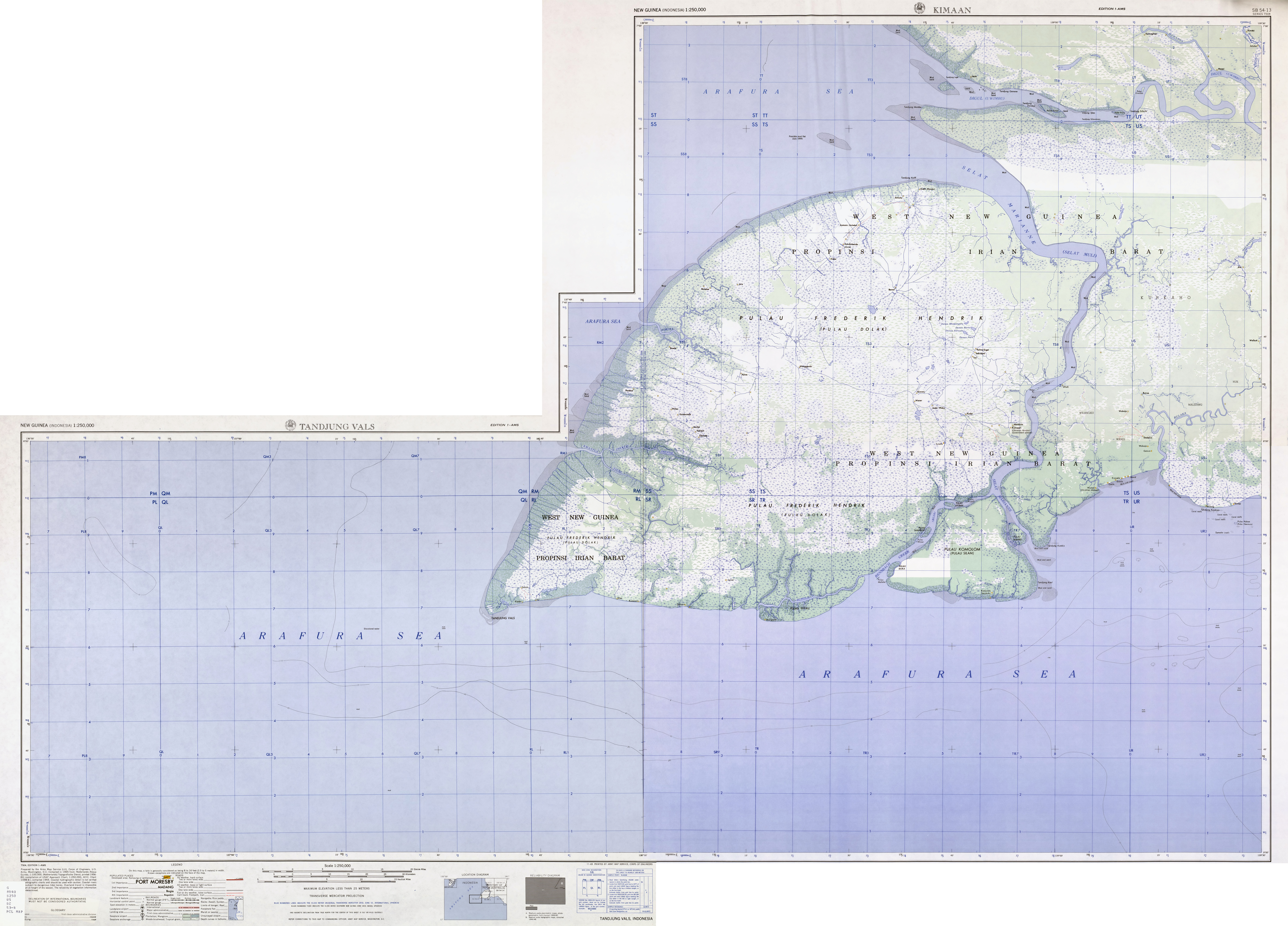 northeast part of Yos Sudarso Island, Indonesia